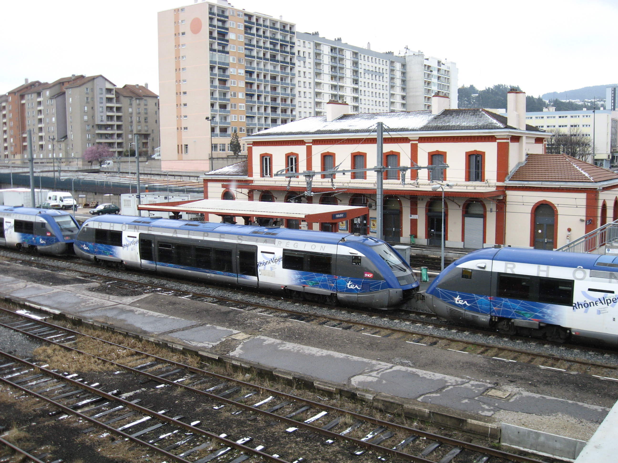 Diesel railcars in the station off Firminy. They still use diesel railcars for lightly used services, despite the recent electrification of the St-Etienne Firminy line.